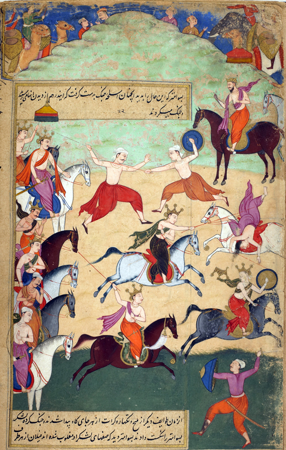 Folio from the Ramayana of Valmiki (The Freer Ramayana), Vol. 1, folio 53; recto: text; verso: The forces of Visvamitra and those raised by Vasistha's volition battle for possession of Sabala 1597-1605 Ghulam 'Ali , (Indian, Mughal dynasty Opaque watercolor, ink, and gold on paper H: 24.0 W: 15.0 cm Northern India Gift of Charles Lang Freer F1907.271.53